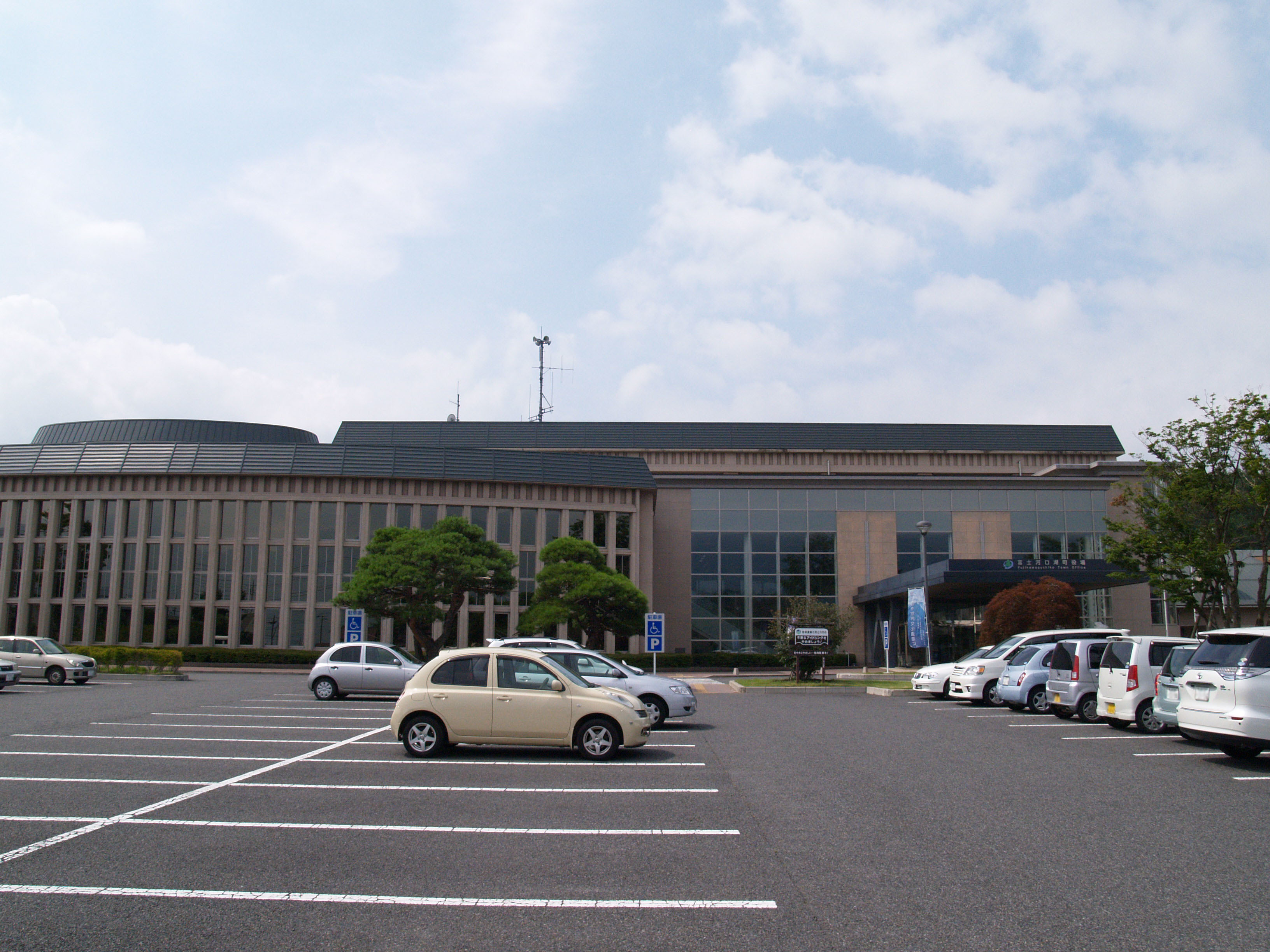 Fujikawaguchiko town office